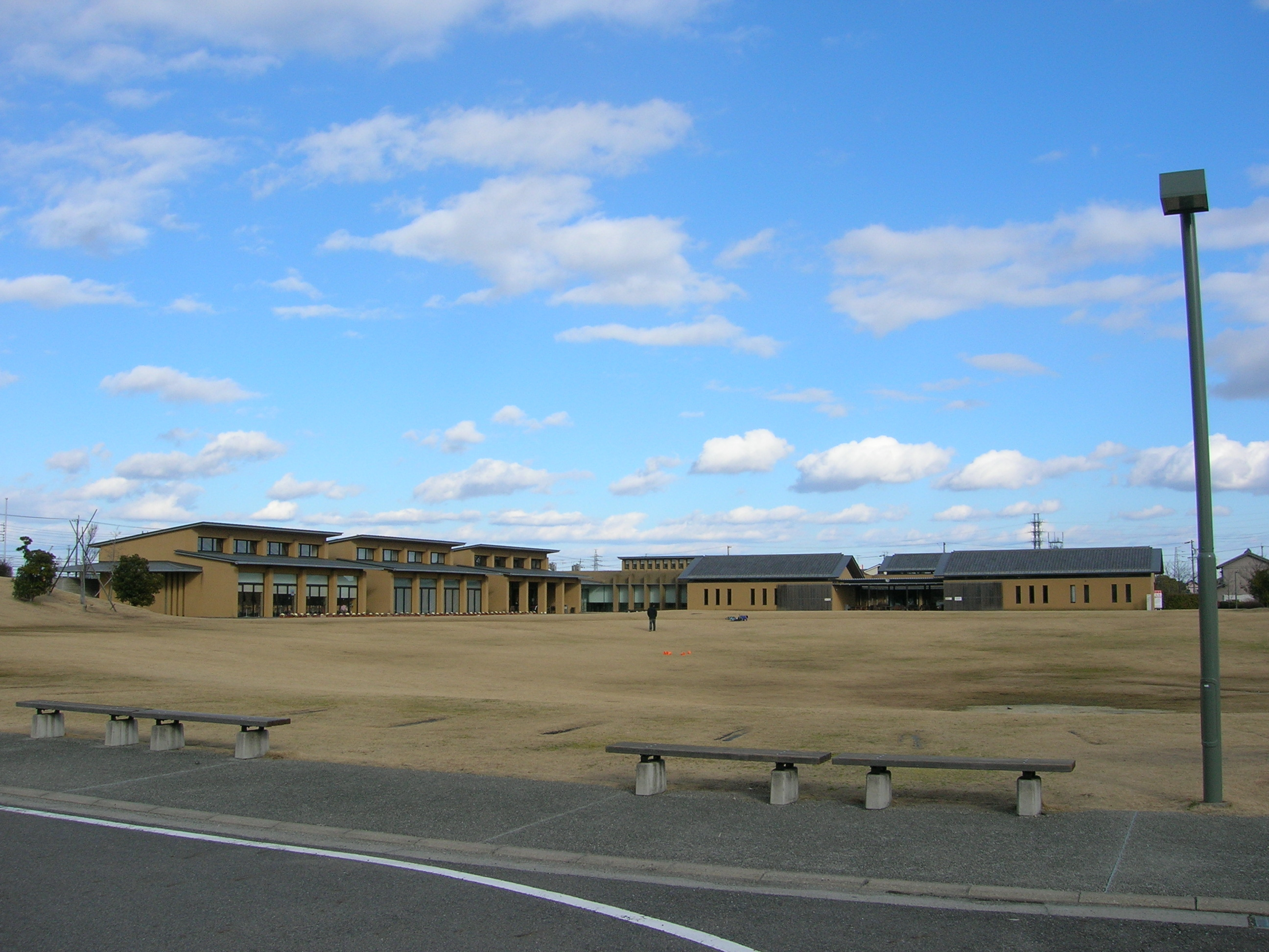 SHIPPŌ ART VILLAGE. Loc: Ama city, Aichi Prefecture, Japan. あま市七宝焼アートヴィレッジ。 撮影場所 愛知県あま市